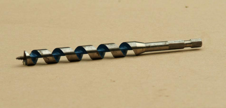 Auger drill bit. Bit diameter about 20 mm. The tool was made in the UK in about 1995. Photo made UK, June 2005.